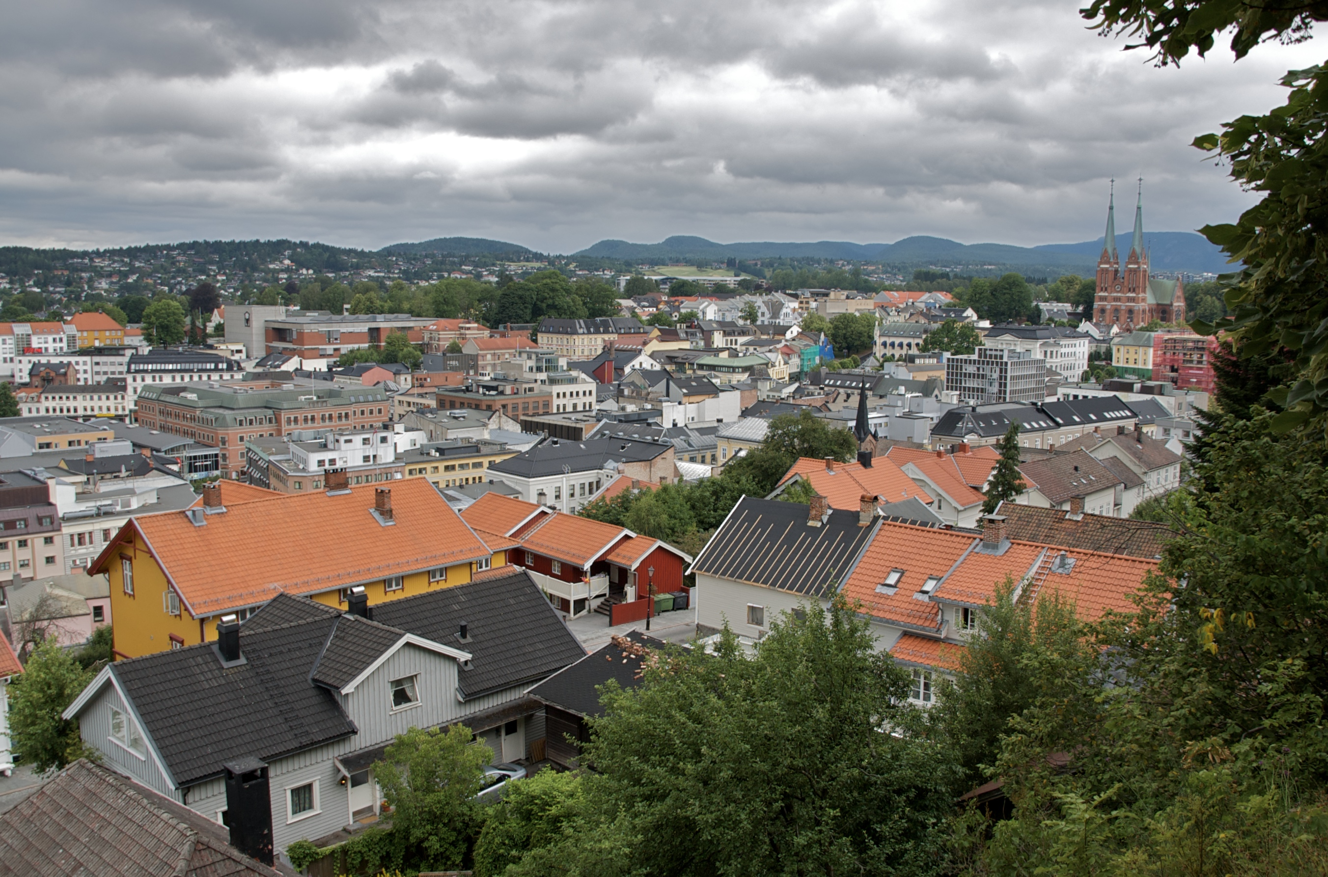 Skien, Norway, seen from Brekkeparken.